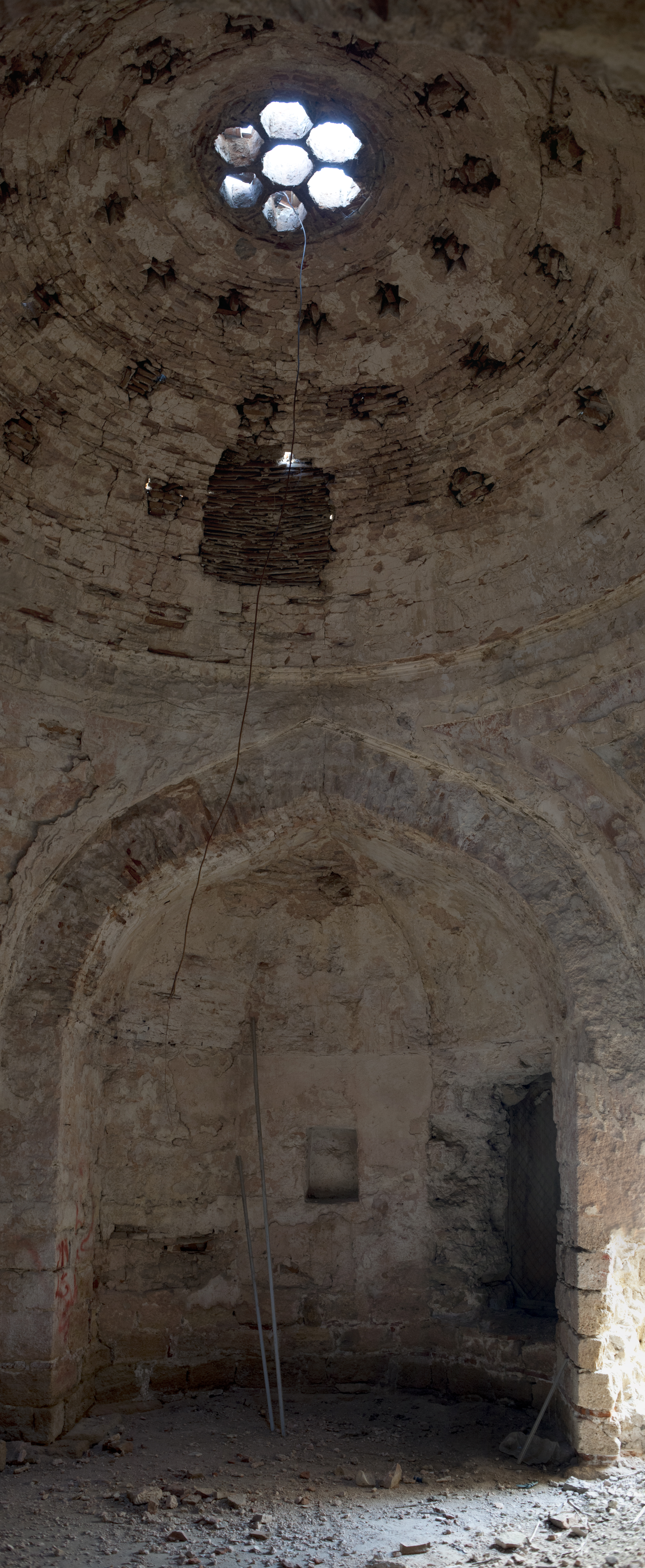 Interior of Feridun Ahmed Bey Hamam (Ottoman bath), Didymoteicho, Evros, Greece.